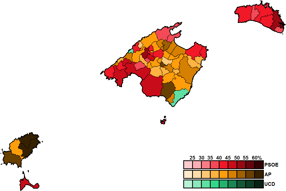 Most-voted party in Balearic Islands municipalities, showing vote share obtained, in the Spanish general election, 1982.